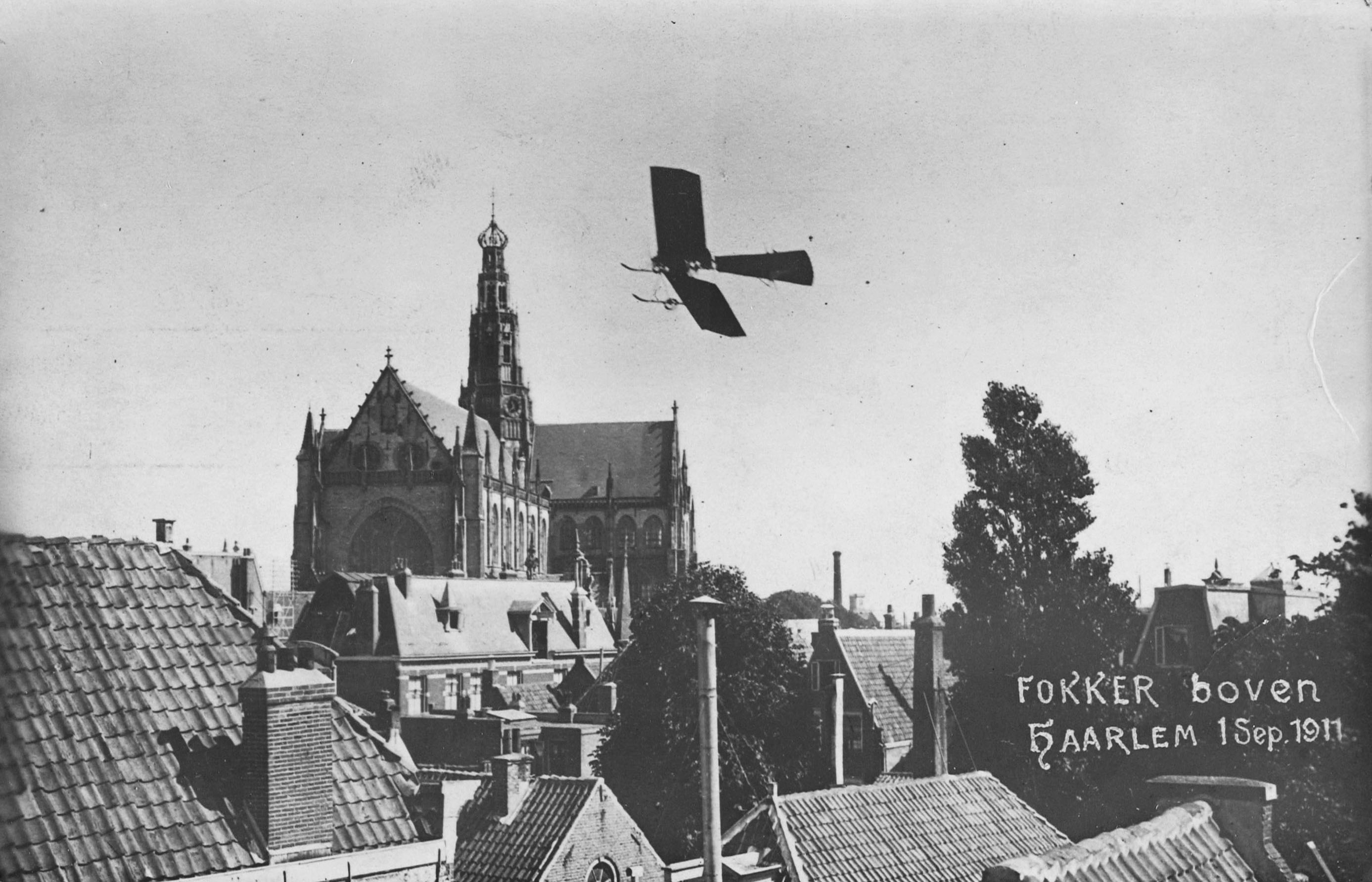 Fokker airplane. Flight above Haarlem, around the Grote or Sint-Bavo church.